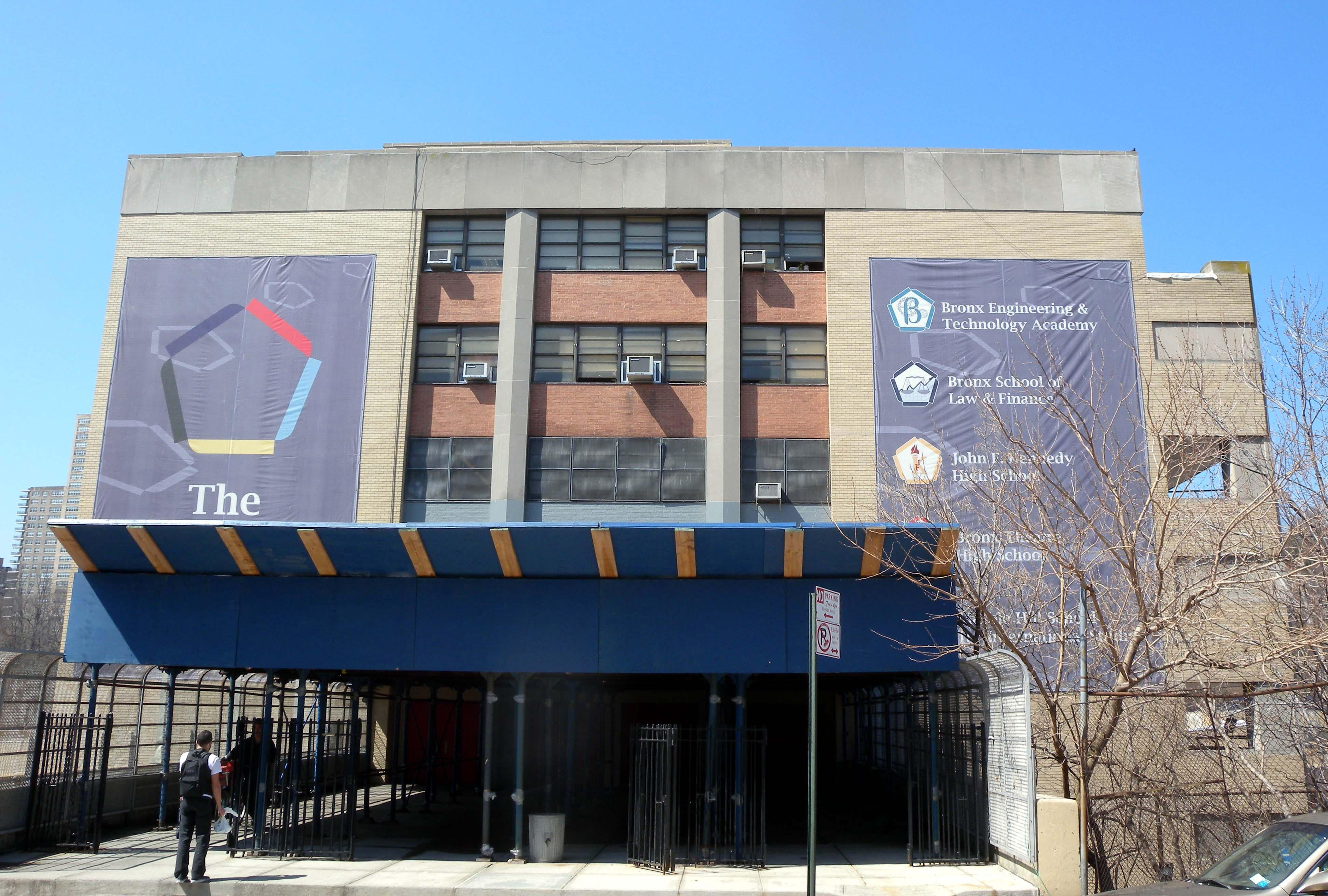 Looking northwest at main door of John F Kennedy High School in Marble Hill on a sunny midday.